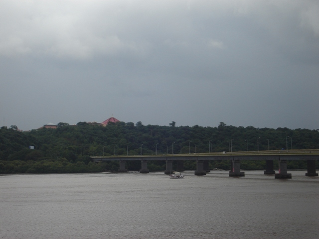 Mandovi Bridge, Panaji.